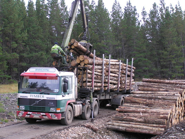 Loading timber in the Naver Forest. A Volvo FL10 timber haulage truck loads timber from a felled stockpile for transport to the nearest railhead at Kinbrace.